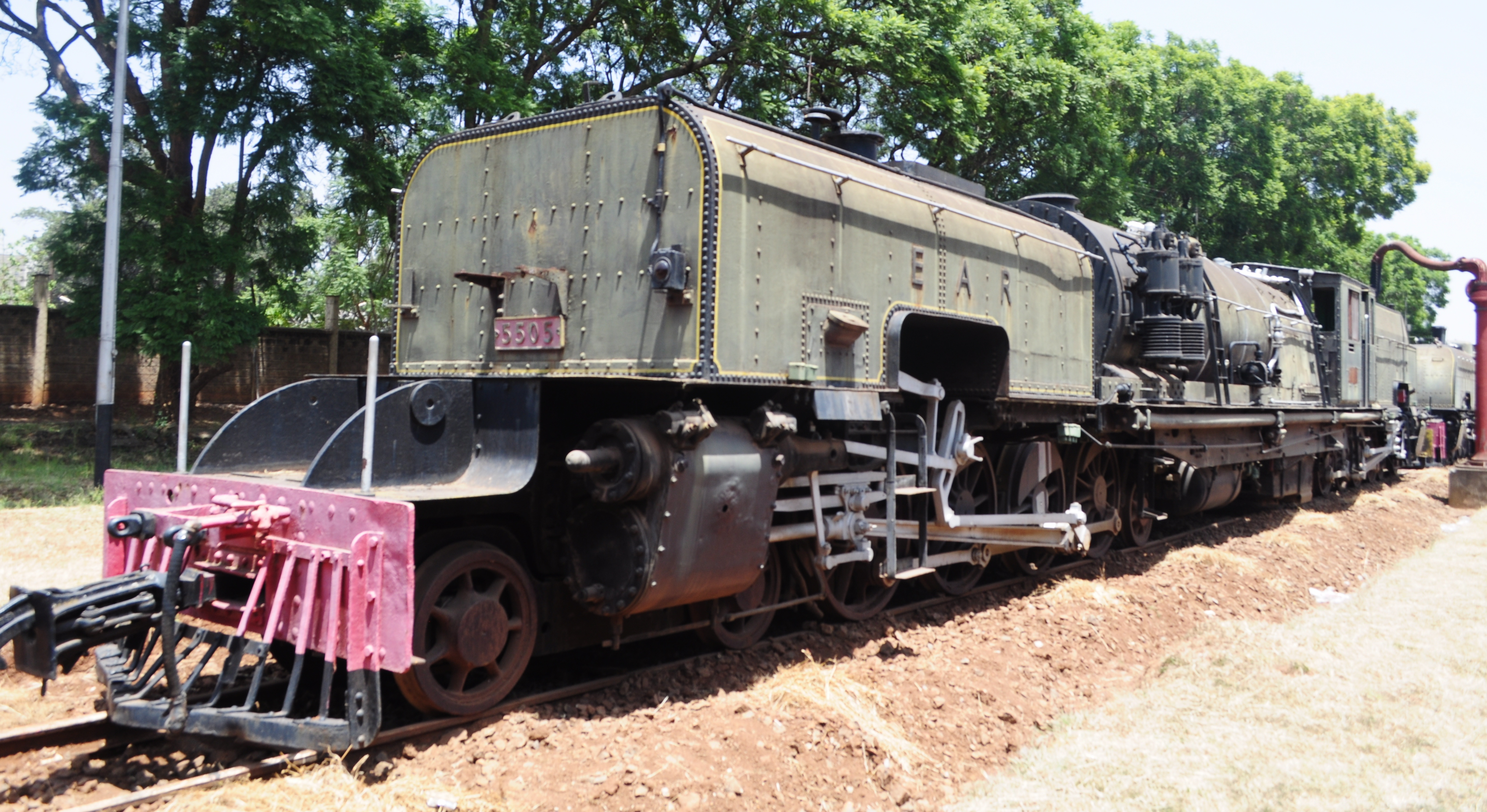 Used on the Kenya Uganda Railway. Manufactured by Beyer-Peacock